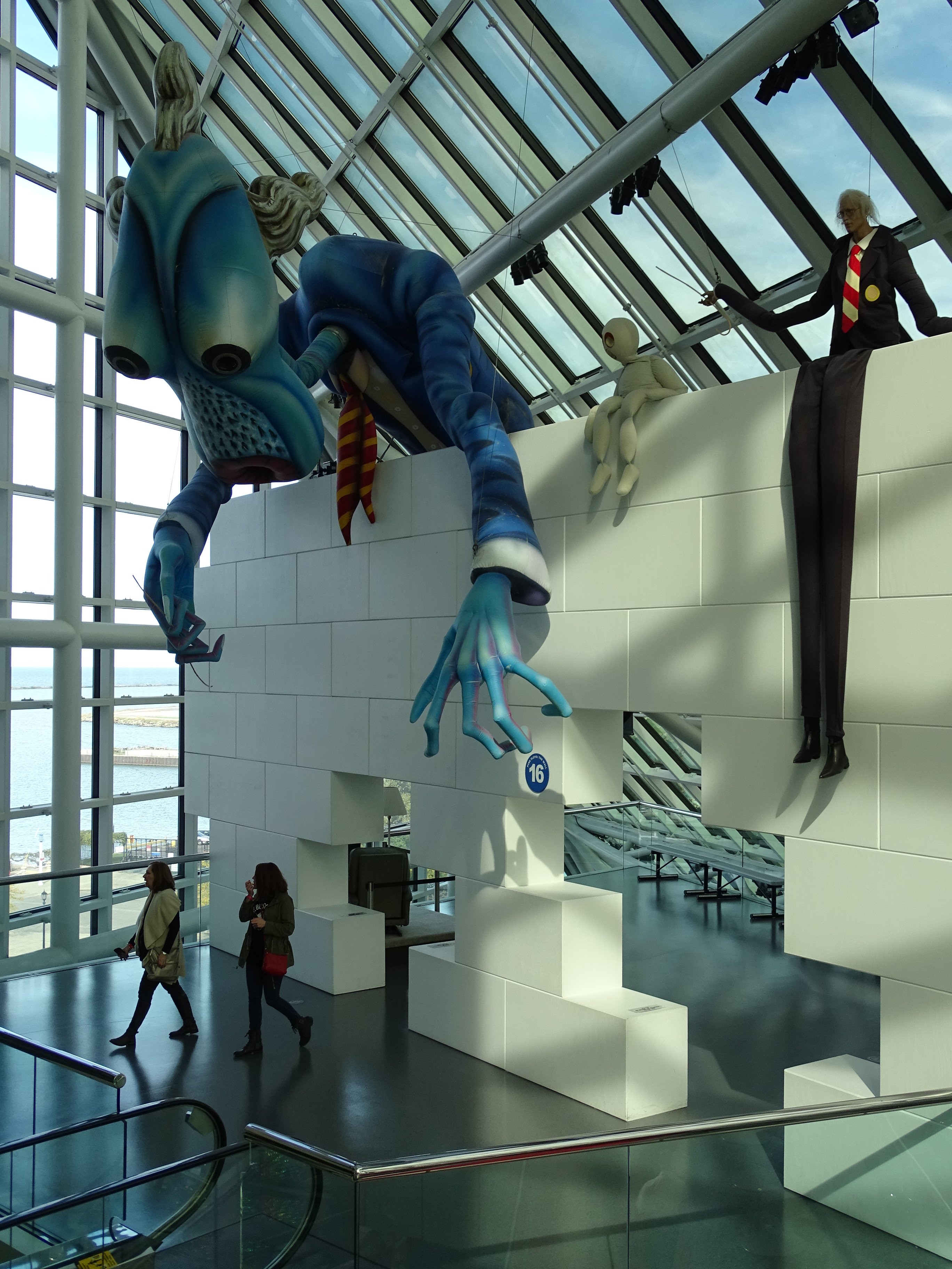 Pink Floyd The Wall Exhibit - Rock & Roll Hall of Fame and Museum - Cleveland - Ohio - USA